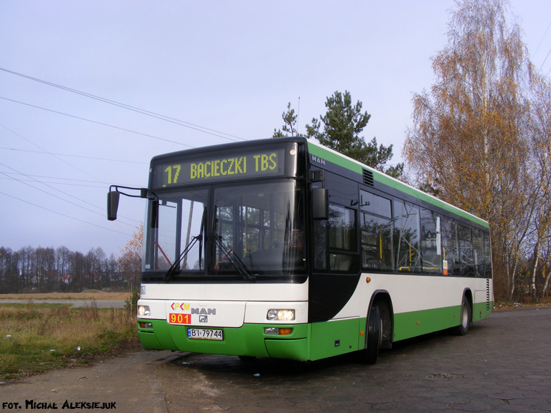 MAN EL283 Lion's City T bus (#901) in Białystok (Plażowa pętla), Poland. Built 2005. KPKM Białystok operator.